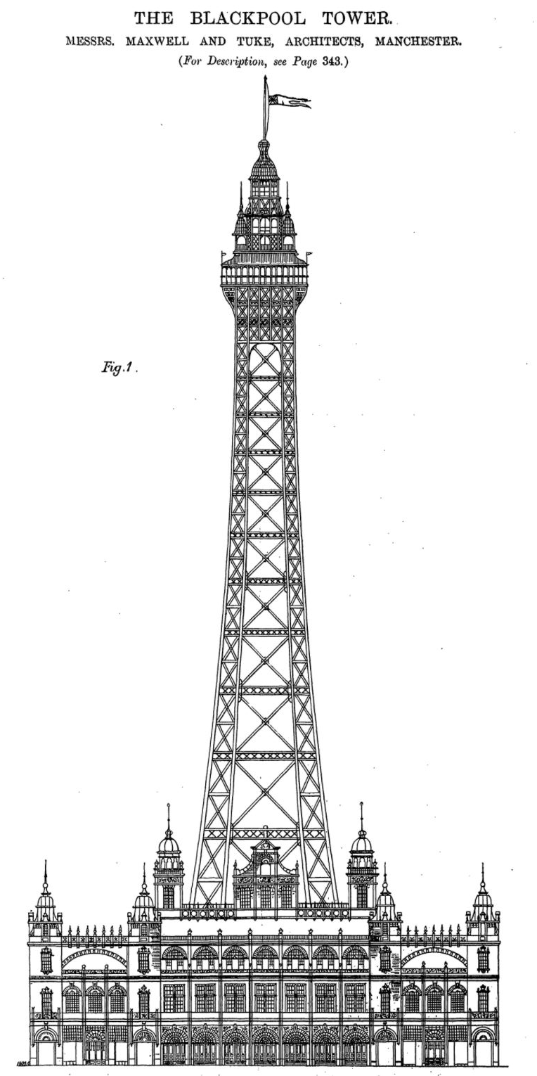 Drawing of Blackpool Tower